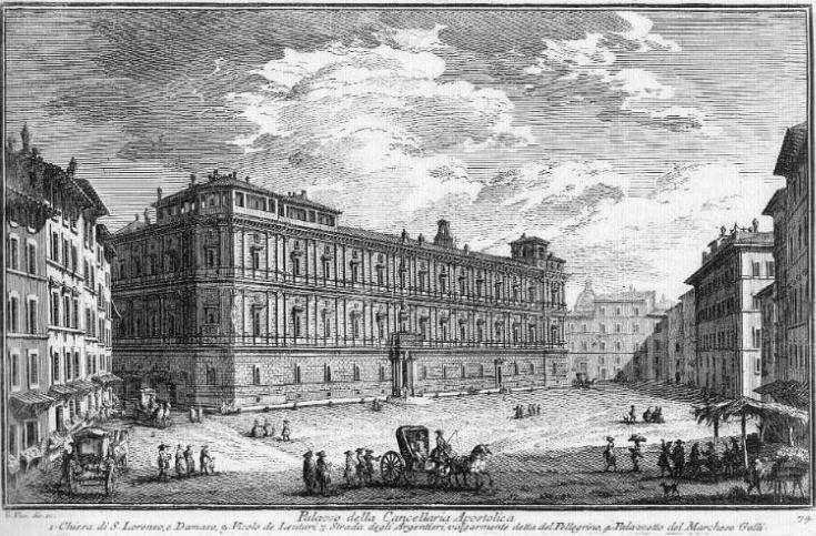 1) SS. Lorenzo e Damaso (S. Lorenzo in Damaso); 2) Vicolo de Leutari (lute makers) leading to Piazza di Pasquino; 3) Strada degli Argentieri (silversmiths), usually called Via del Pellegrino (pilgrim); 4) Palazzetto del Marchese Galli.